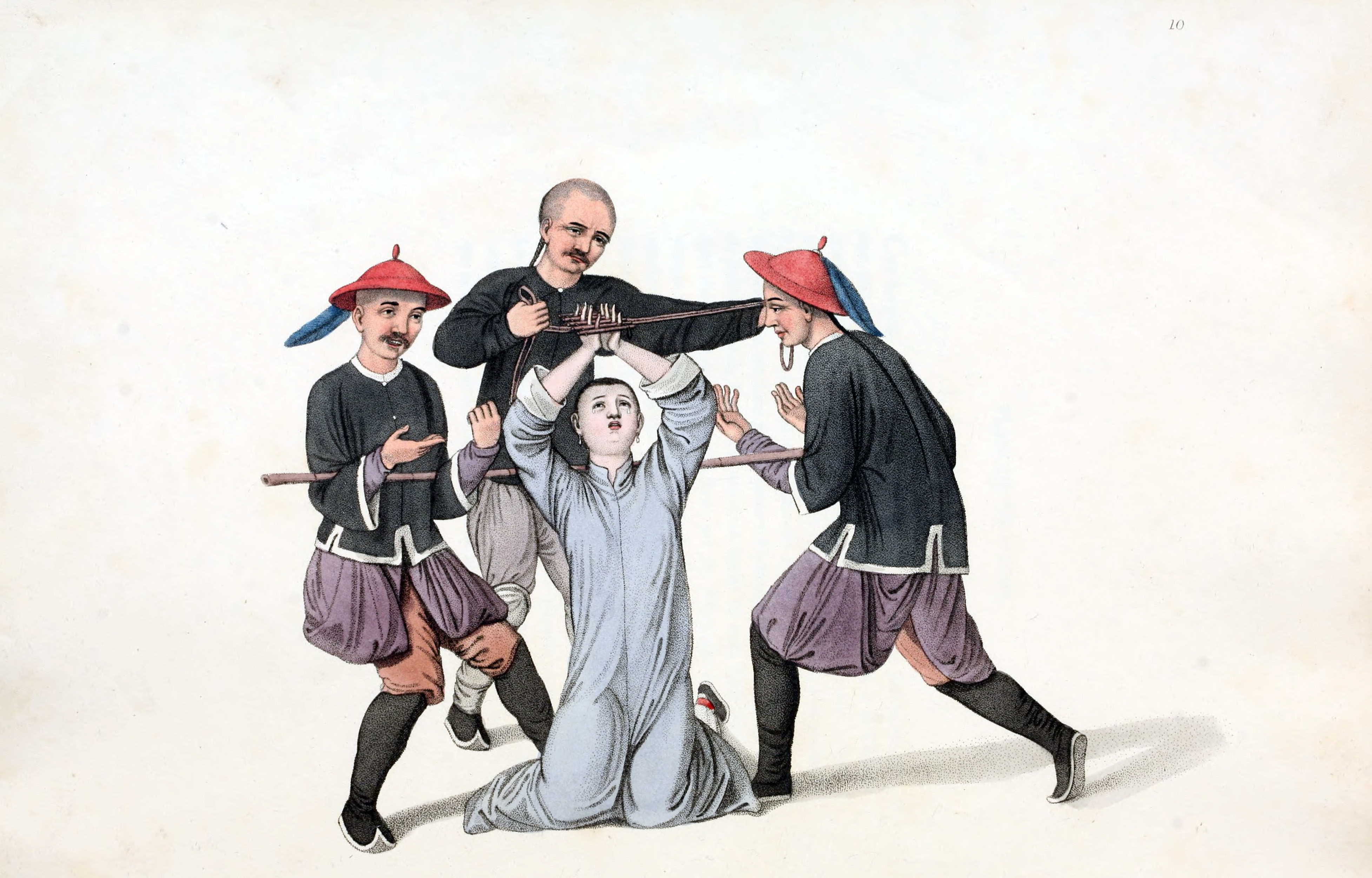 See Wikisource link below.